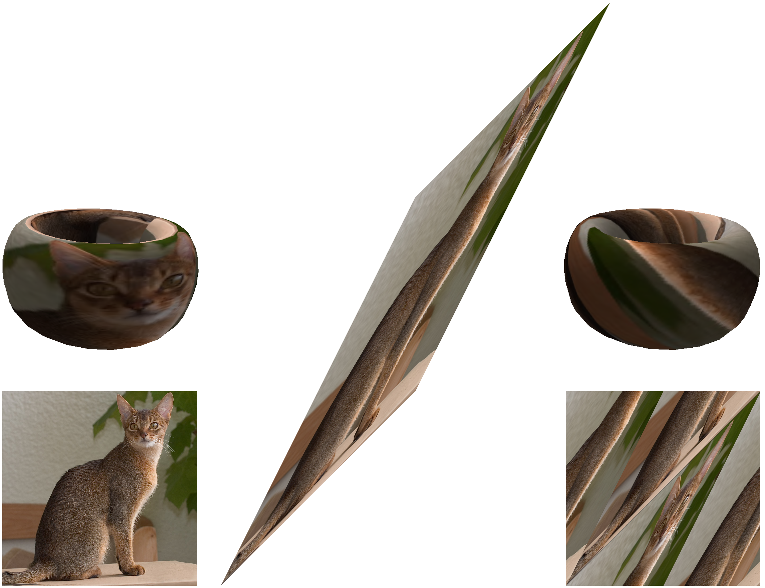 A picture of a cat mapped to the torus, and its transformation through the Arnold's cat map, with the result on the torus.